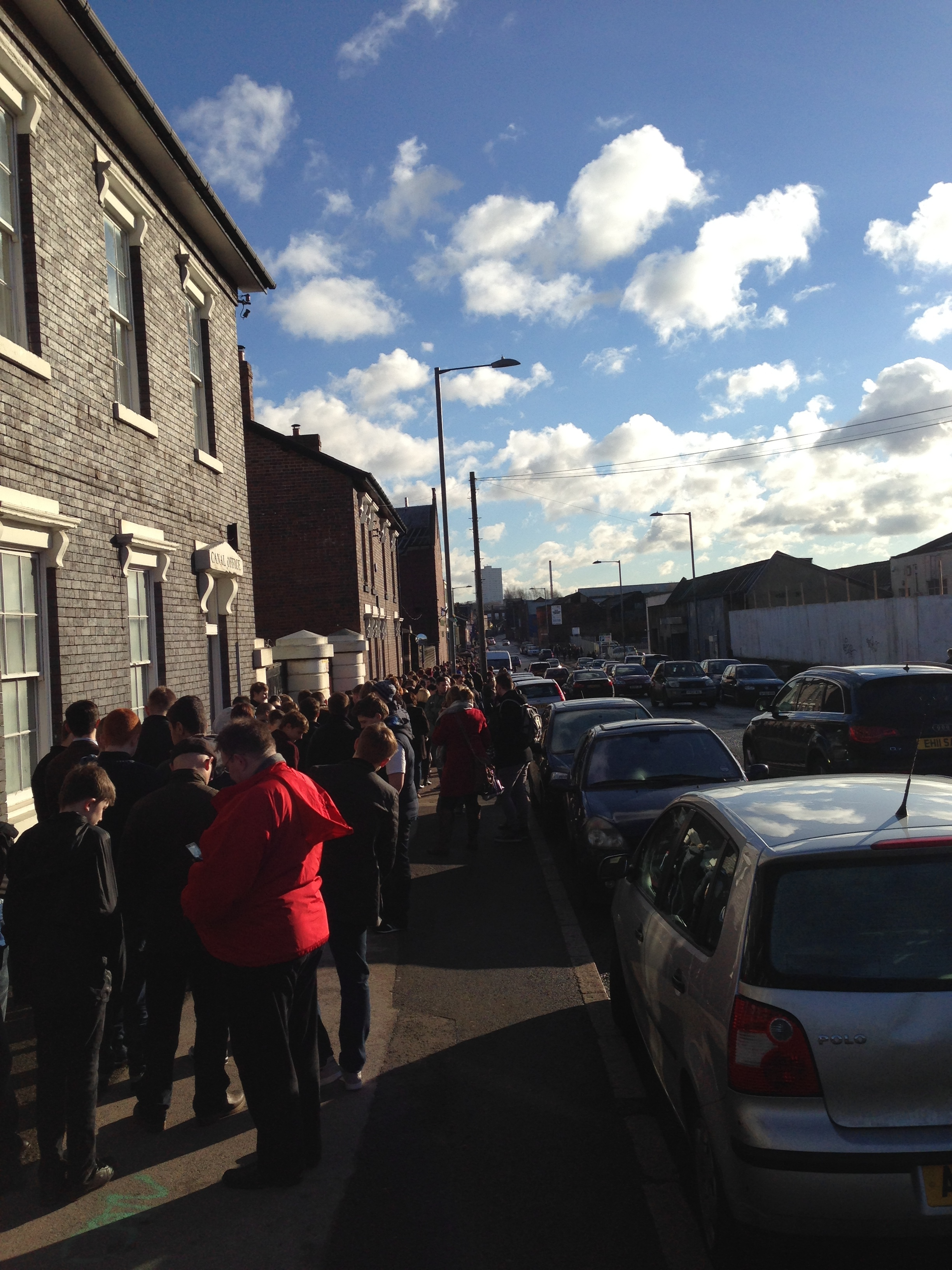 People queuing on Fazeley Street, Digbeth, Birmingham, to audition for roles as extras in series 2 of the TV series Peaky Blinders.